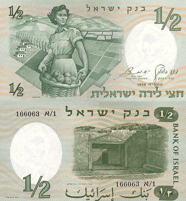 Obverse & Reverse side of a HalfLira bill, paper.